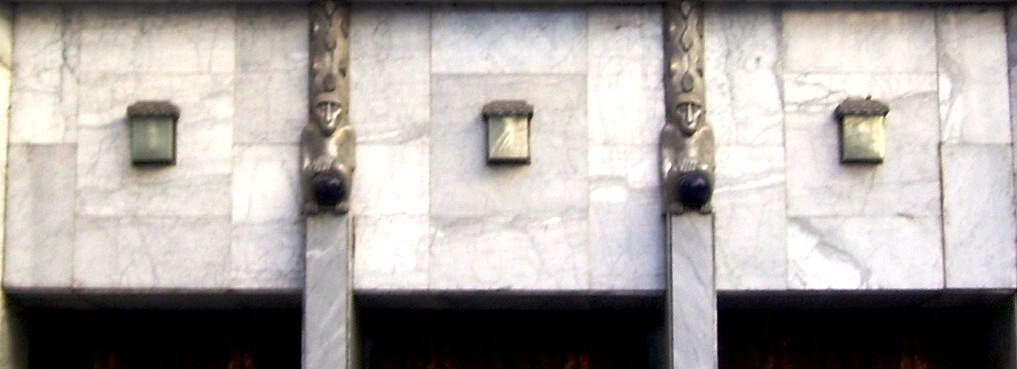 Budapest.VI.Paulay Ede utca 35 Új Színház bejárat részlet